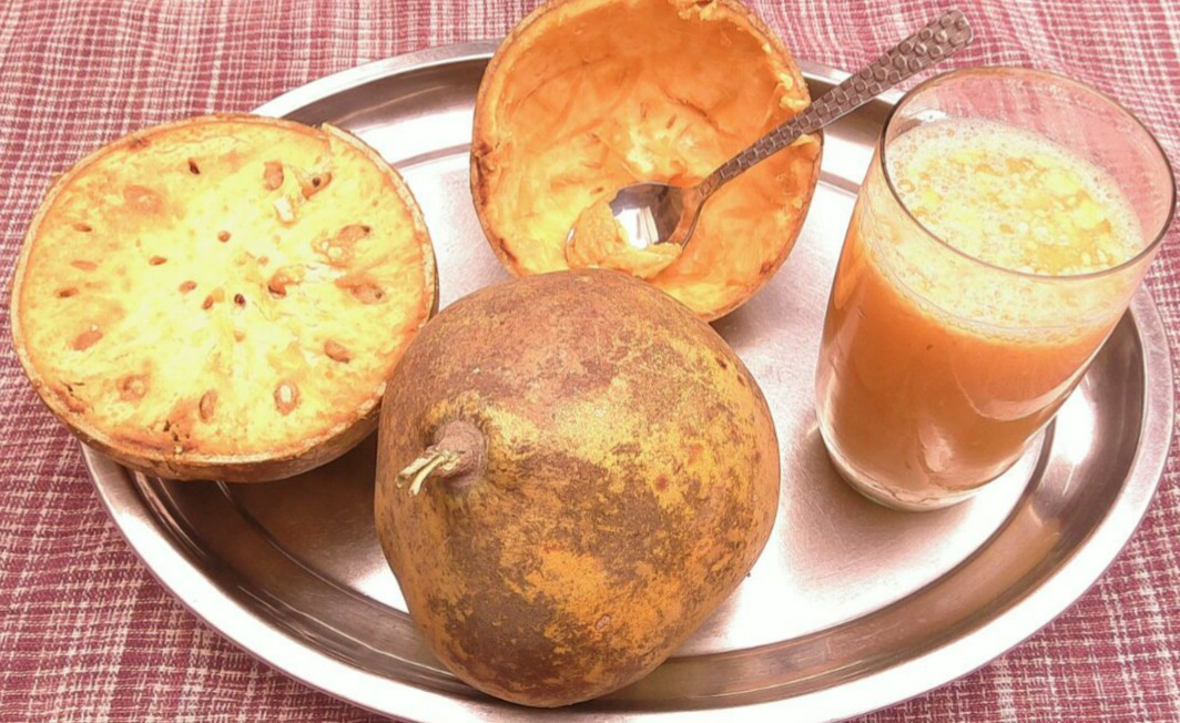 Bael Sherbat or Bael juice is a popular summer drink of North India. Also known as wood apple and stone apple, bael is the fruit grown on the tree commonly known as 'belpatr ka paid'. The Image is clicked in Bourbyas village of Sant Kabir Nagar district, UP where the populace welcome the guests with this healthy drink in the summers